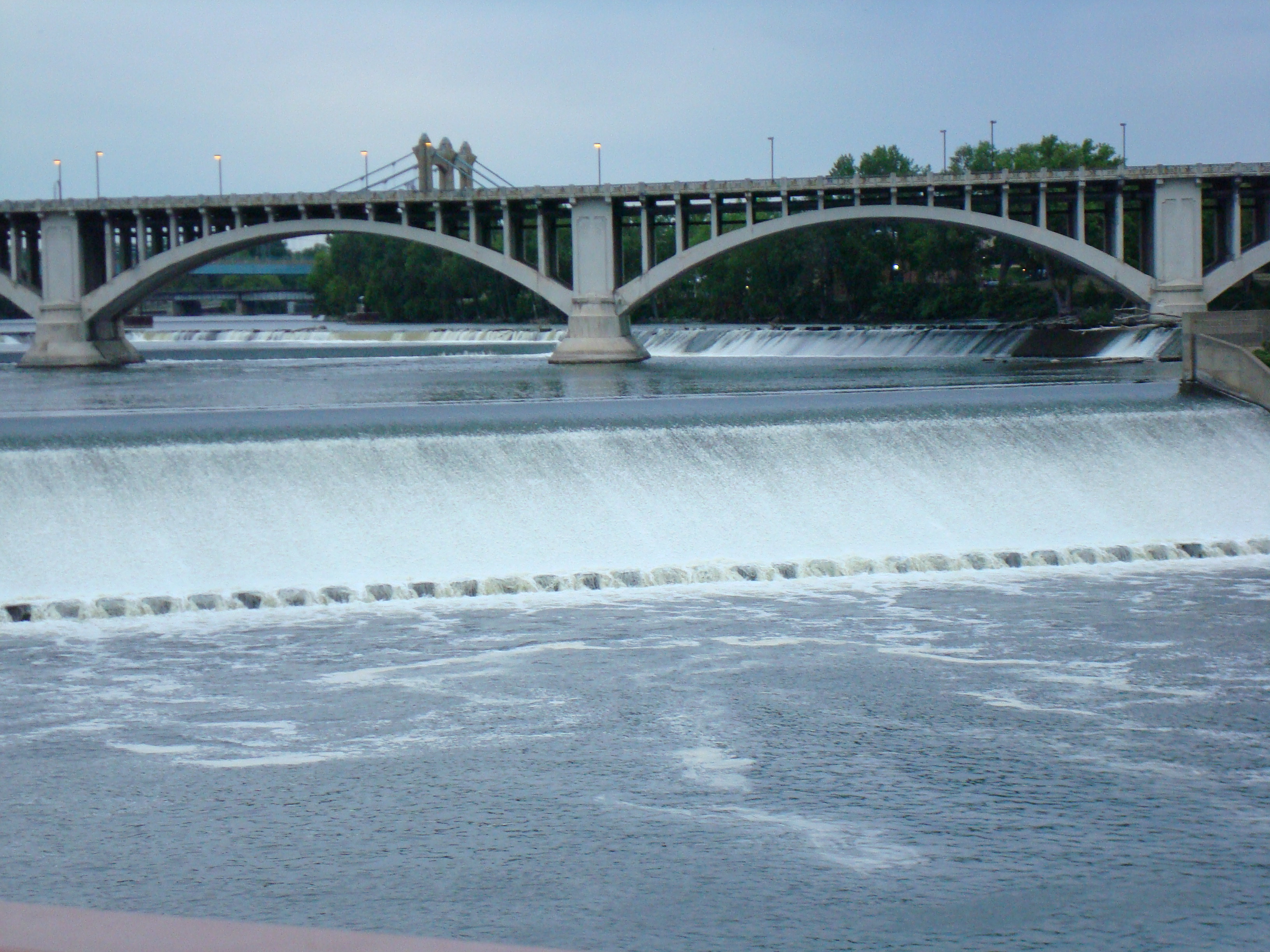 The Mississippi river in Minneapolis close to the bridge that broke some years ago.